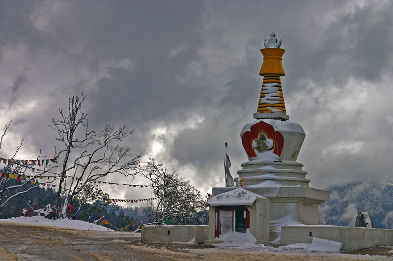 A tibetan-style chorten and prayer flags mark the pass at Pele La (3420m), a pass in the Black Mountains that is largely considered the boundary between western and central Bhutan. East of the pass the road leads to Trongsa, site of Bhutan’s largest Dzong and ancestral home of the royal family. Beyond lie the breathtakingly beautiful Bumthang valleys, the heart of Bhutan, a treasury of temples and monasteries, a living museum of art and history. We had serious difficulties reaching the pass on the vertiginous road covered with ice and snow crawling up to the top. We heard later that we were the last vehicle to make it that day. Others had to wait a couple of days due to heavy snow falls.